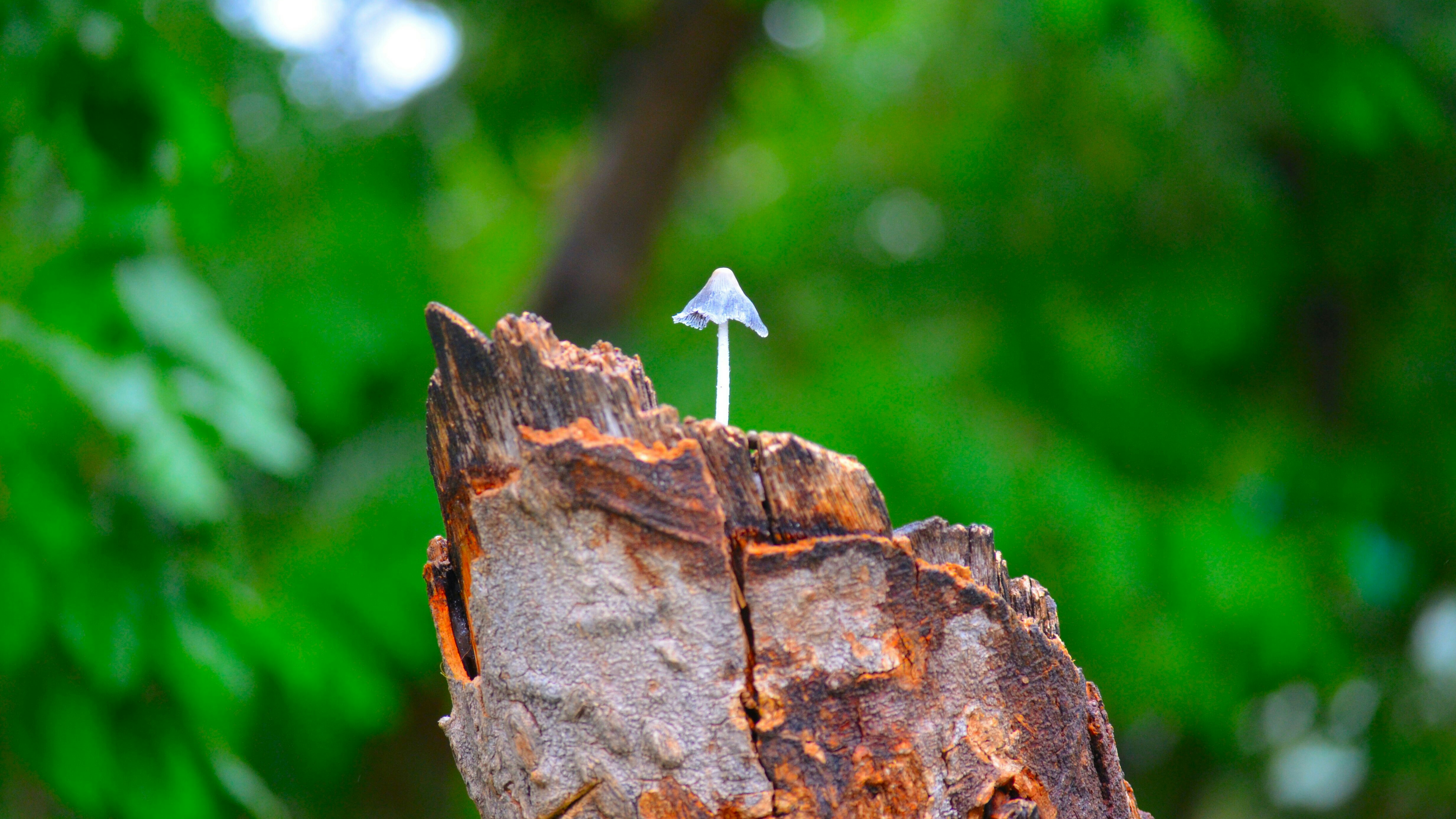 Life Cycle